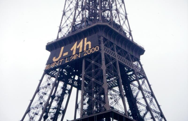 Countdown 1999 still 11 hours until the year 2000 at the Eiffel Tower in Paris Photo 1999 Wolfgang Pehlemann Wiesbaden